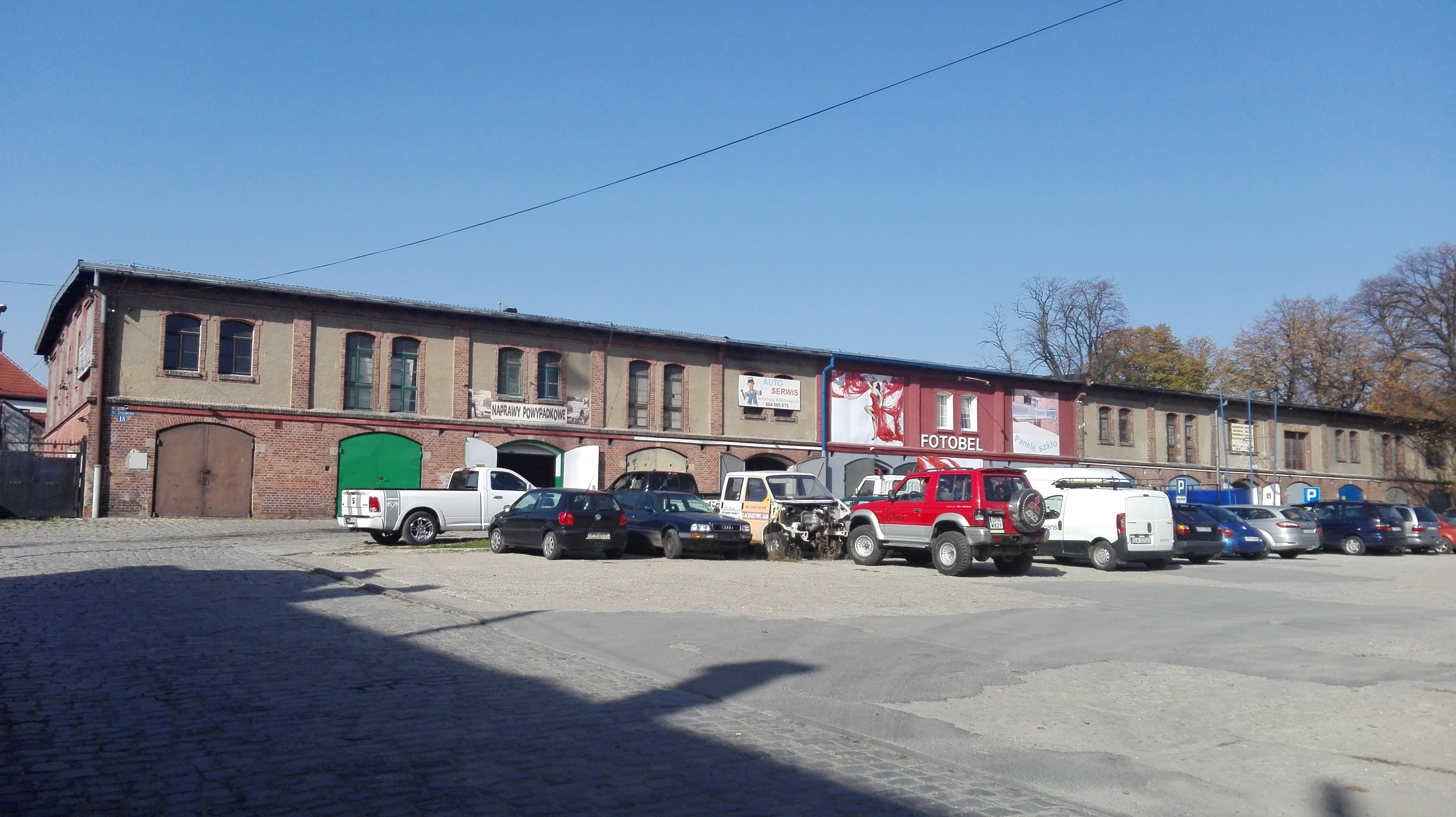 18 Żołnierska Street in Prudnik